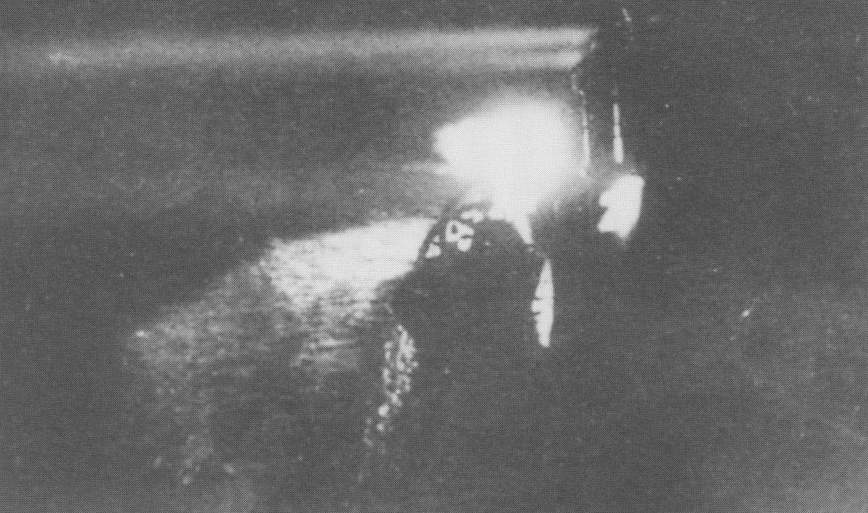 The Japanese cruiser Yubari shines searchlights towards the northern force of Allied warships during the Battle of Savo Island on 9 August 1942.